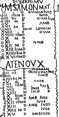 Month 14 (Samonios year 2) of the Coligny calendar